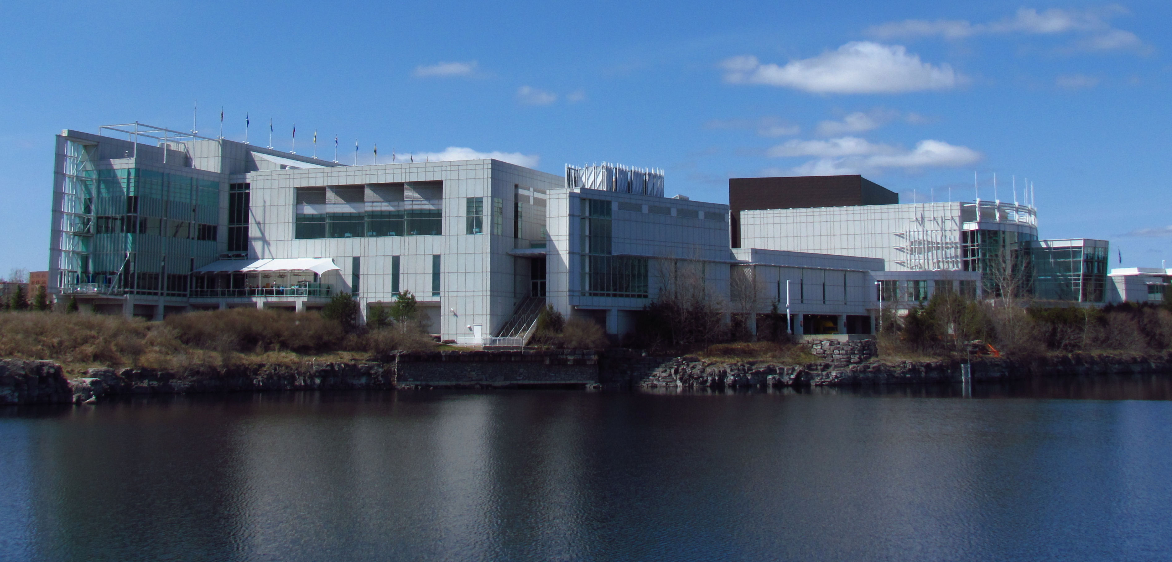 Casino du Lac-Leamy viewed from Lac de la Carrière, Gatineau, Quebec